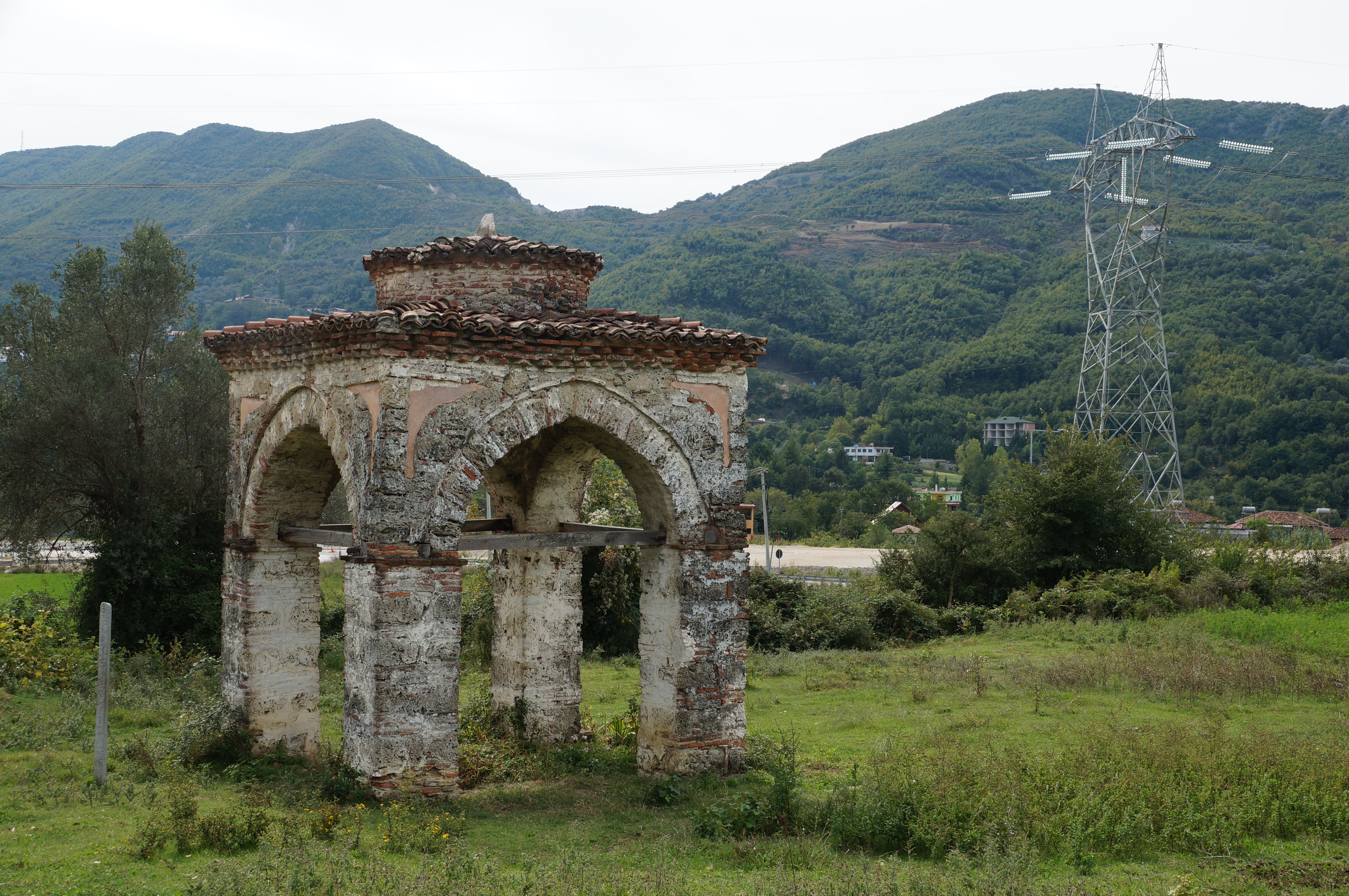 Bride's tomb in Mullet south of Tirana, Albania